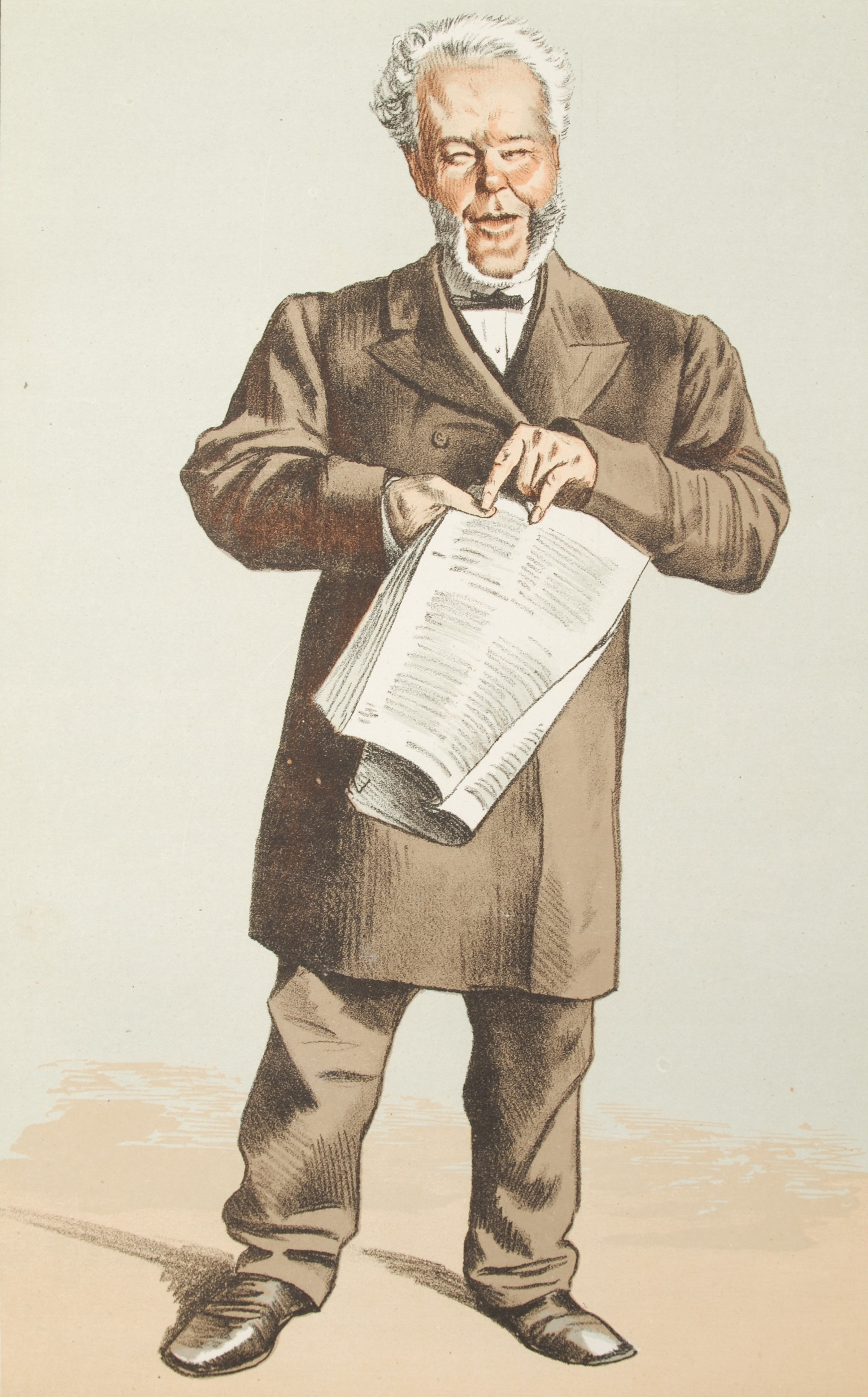 Statesmen No.94: Caricature of Alderman Andrew Lusk MP. Caption reads "Now I want to know".